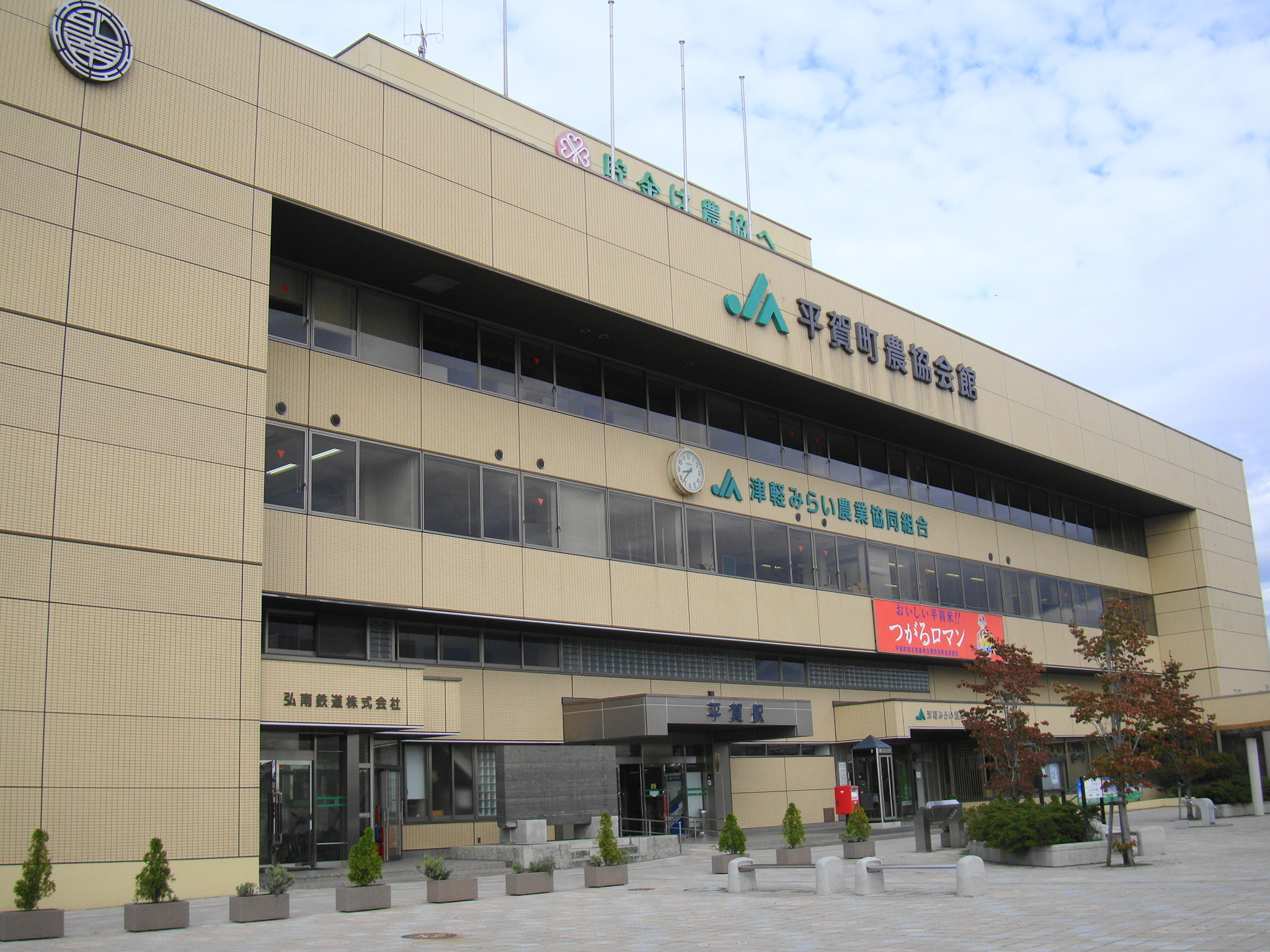 Hiraka Station